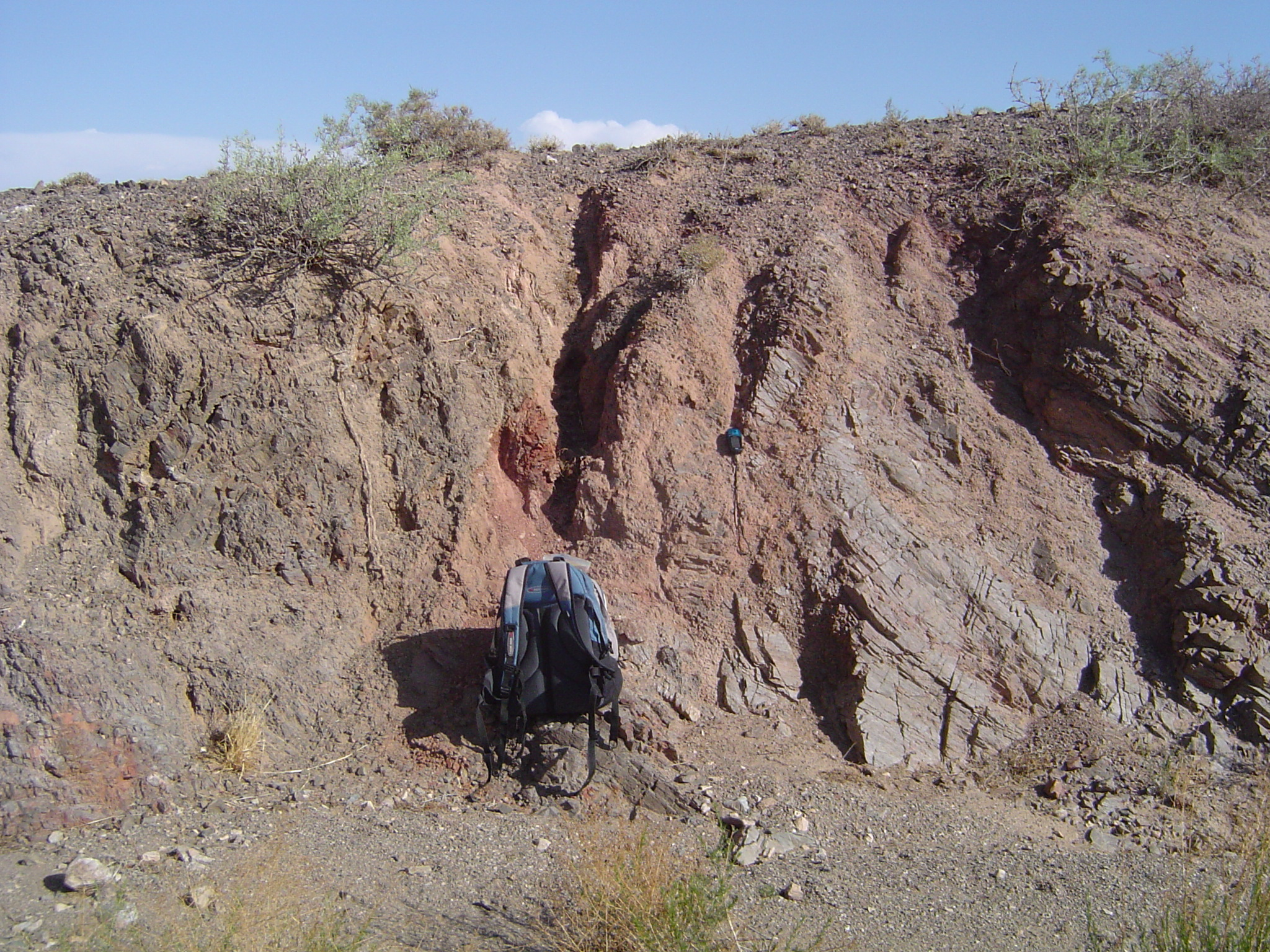 A small fault cuts between the lighter grey rocks on the right and the darker grey rocks on the left. Fault gouge is seen as the salmon-colored rock in the center of the picture above the backpack. from Tavan Har, the Gobi, Mongolia.